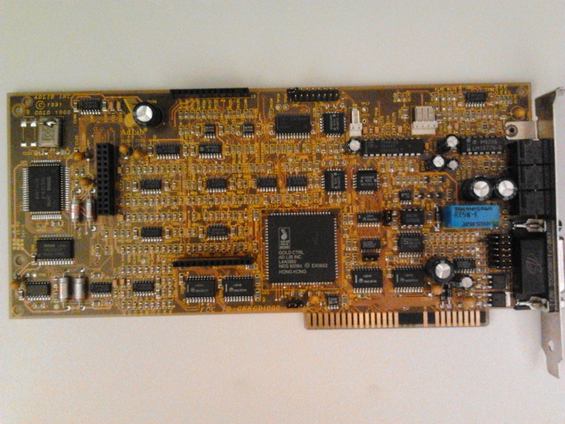 This is the AdLib Gold 1000 8-bit ISA sound card. Released in 1991 by AdLib Inc.